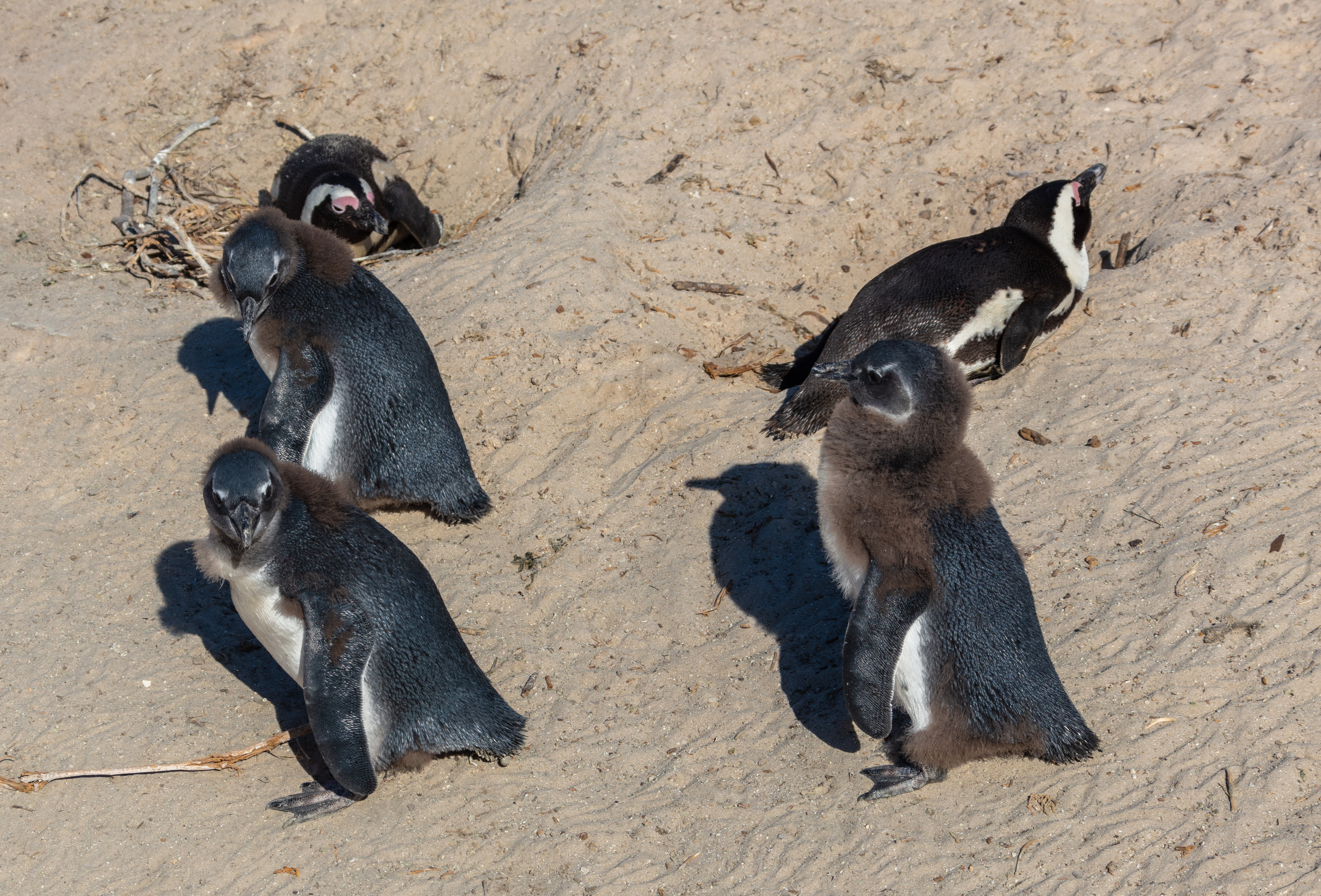 African penguins (Spheniscus demersus), Boulders Beach, Simon's Town, South Africa